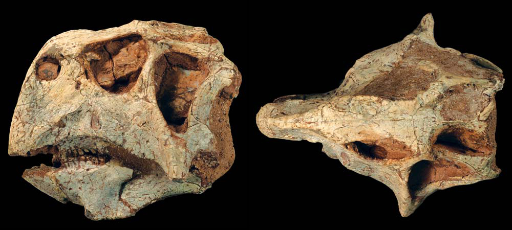 Skull of Psittacosaurus lujiatunensis (formerly major), LHPV 1, Near Beipiao City, Liaoning Province, China, lower portion of the Lower Cretaceous Yixian Forma− tion, in lateral (A) and dorsal (B) views.